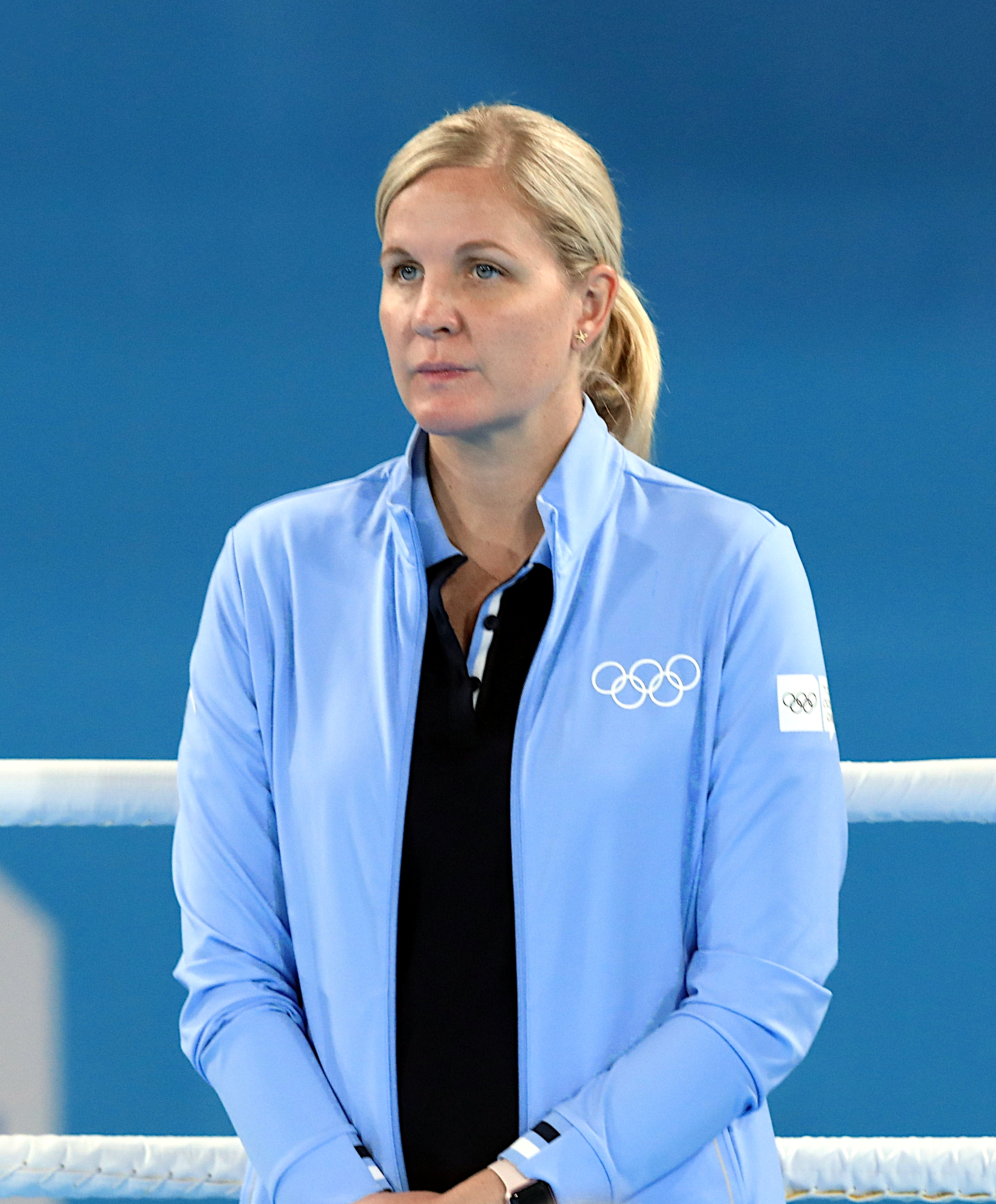 Victory ceremony of the boys' –60 kg (lightweight) at the 2018 Summer Youth Olympics in Buenos Aires on 17 October 2018.